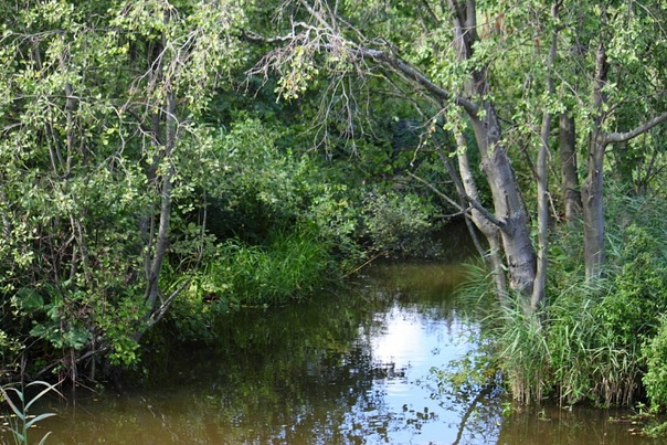 River in Pushkinskiy district of St-Petersburg (Russia)